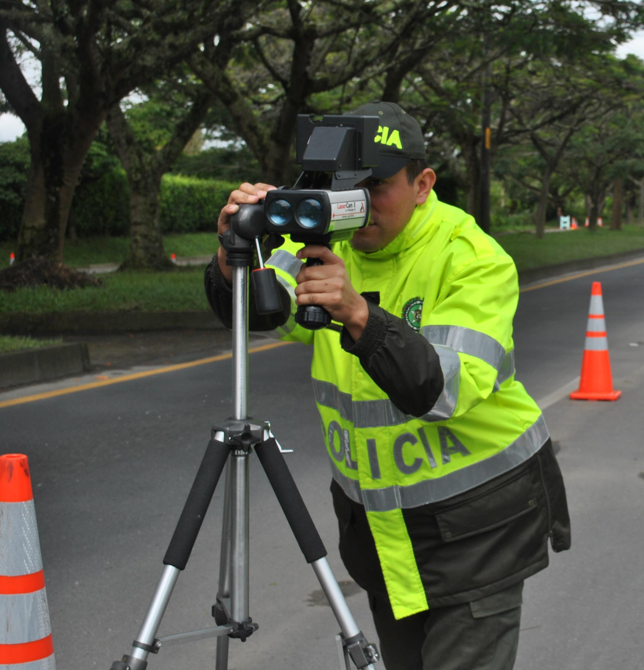 Colombian cop using a radar speed gun.